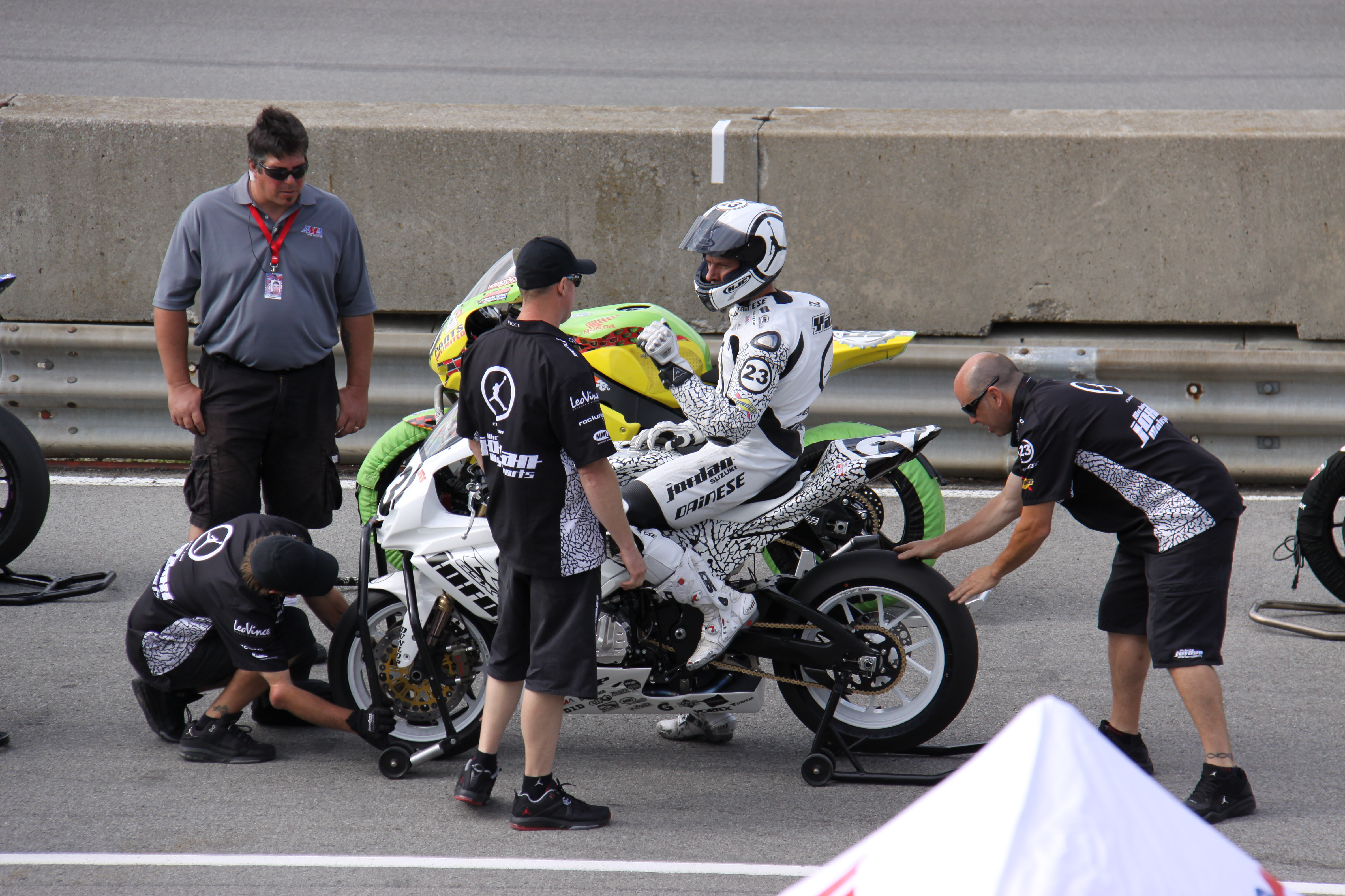 Michael Jordan Motorsports